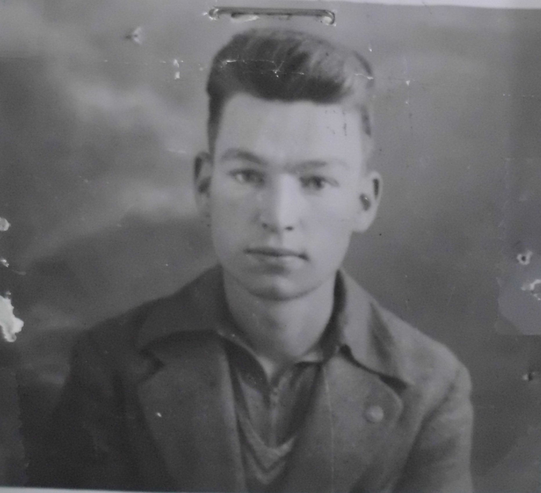 Photo of Abe Lazarus in 1934Depicted person: Abe Lazarus